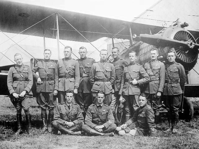 Pilots of the 99th Aero Squadron with a Salmson 2A2 at Parois Airdrome, France